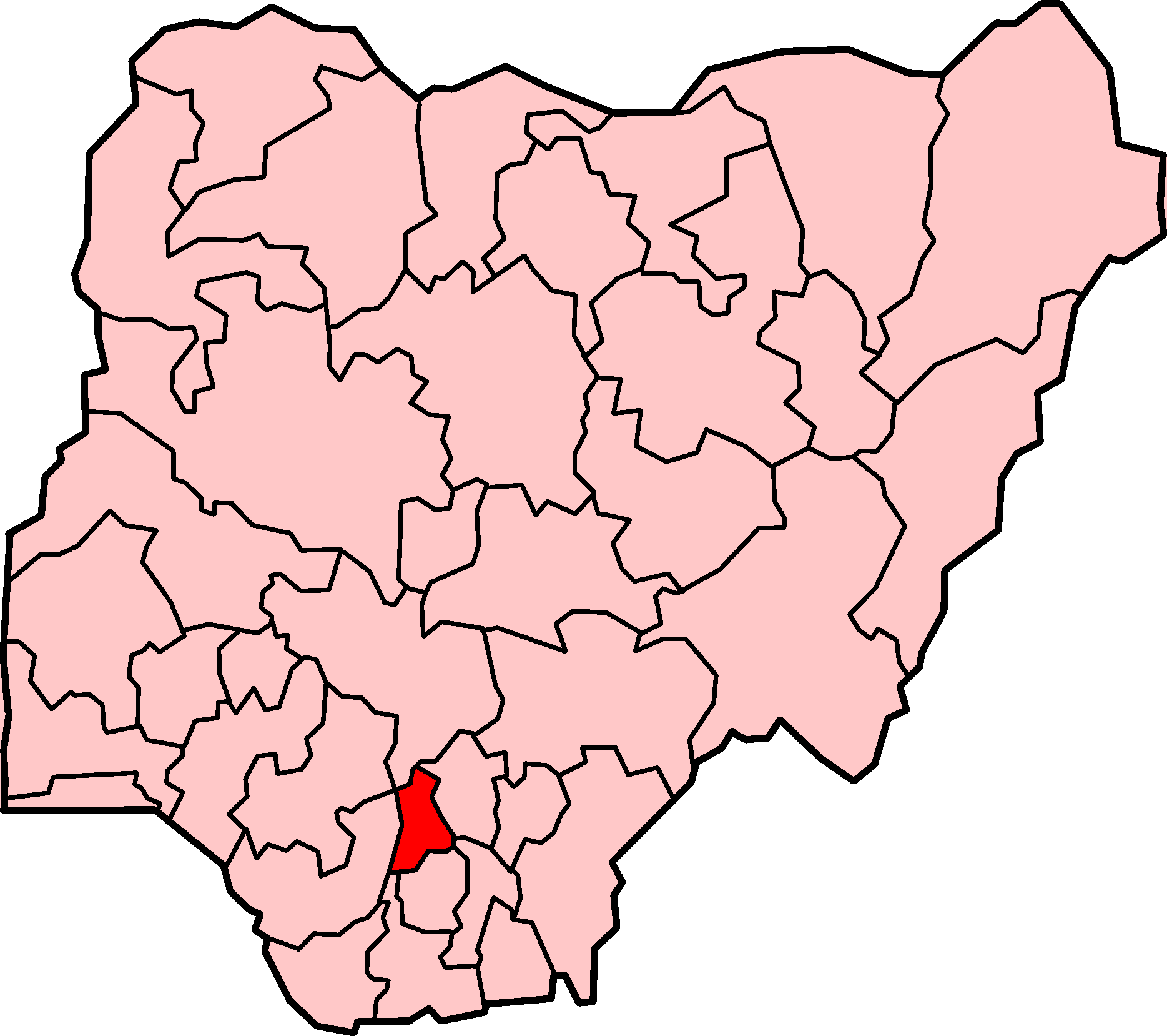 Locator map for Anambra state, within Nigeria